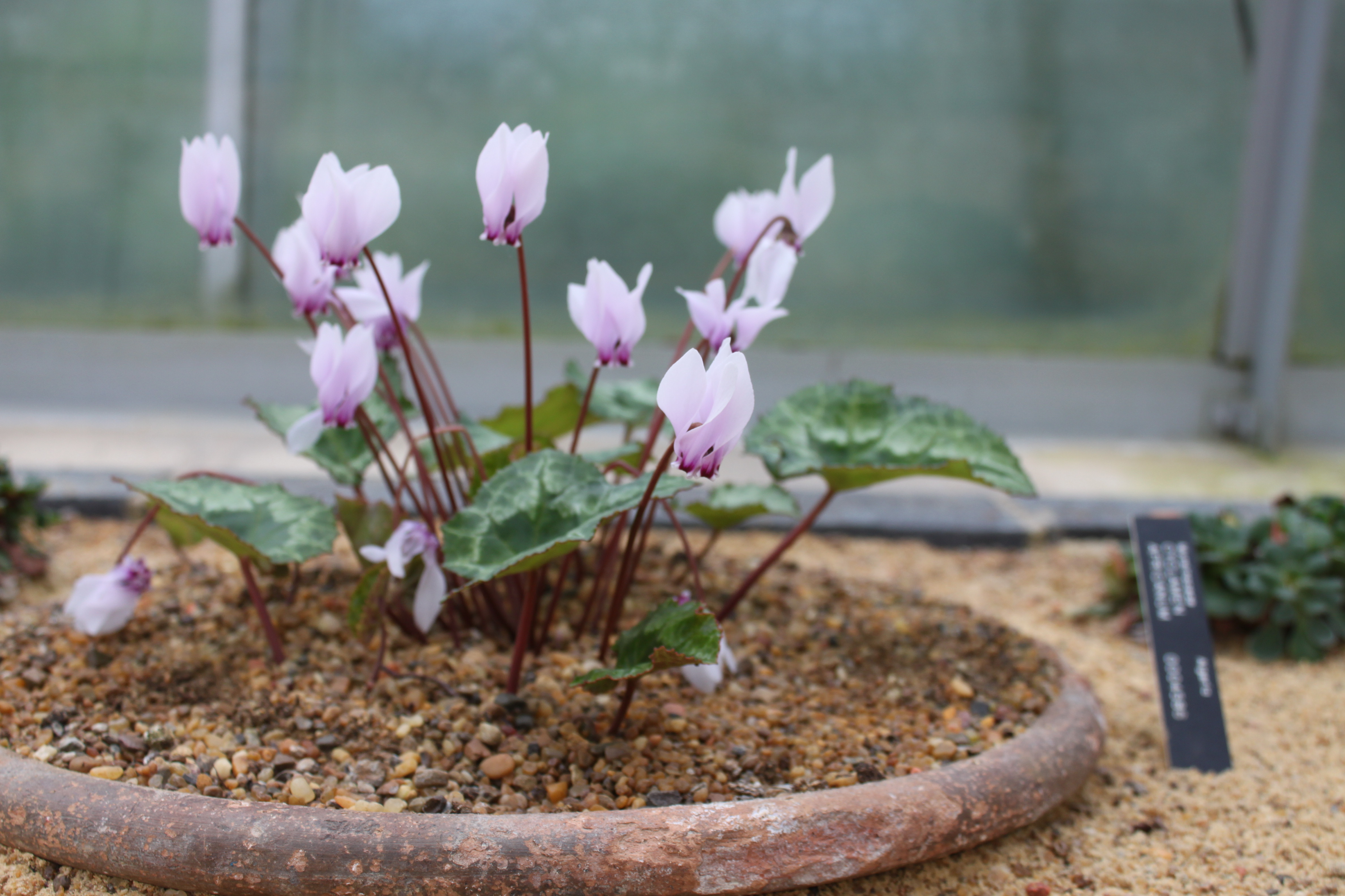 Flowers and young leaves of Cyclamen africanum at Oxford Botanic Garden